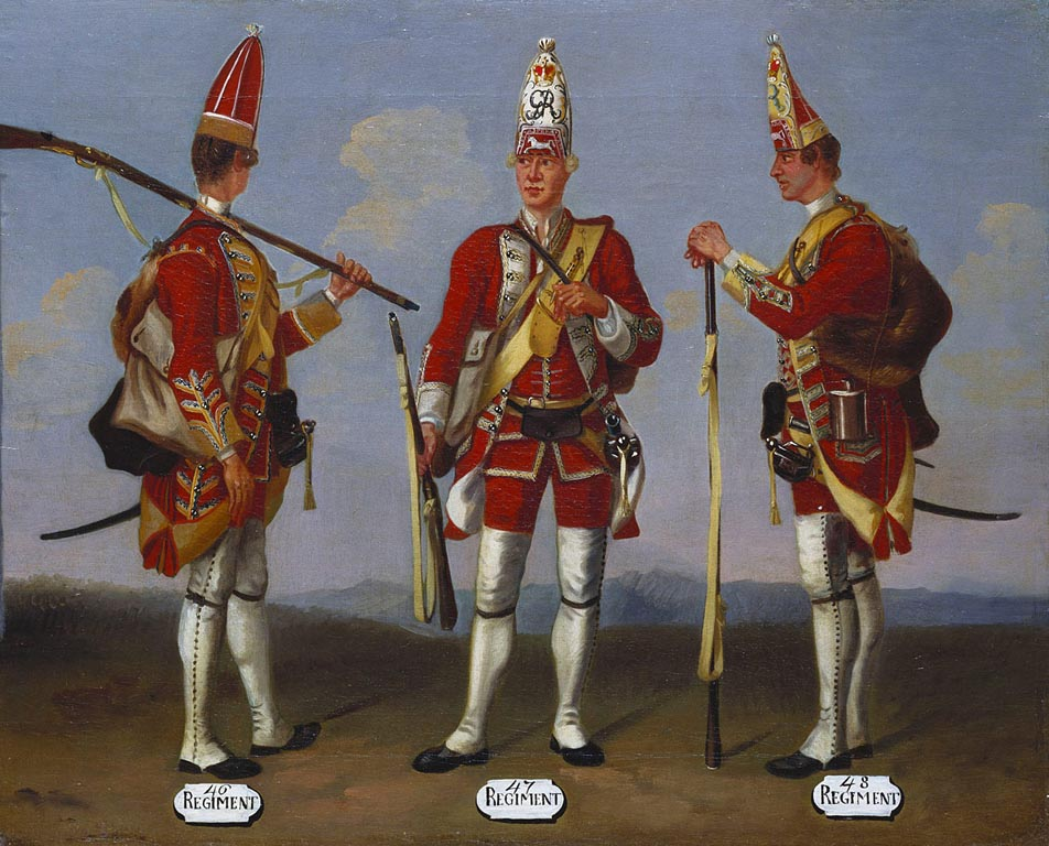 A panel from David Morier's Grenadier paintings, depicting private soldiers of the British 46th, 47th and 48th Regiments of Foot, circa 1750. David Morier